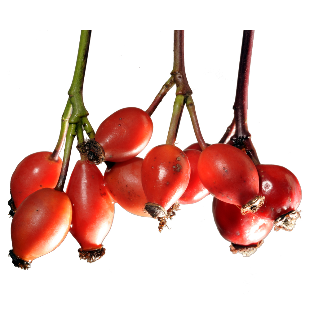 Rose hips from Sweden